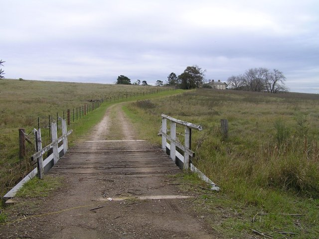 Raby, Catherine Field: View of Raby from Camden Valley Way.